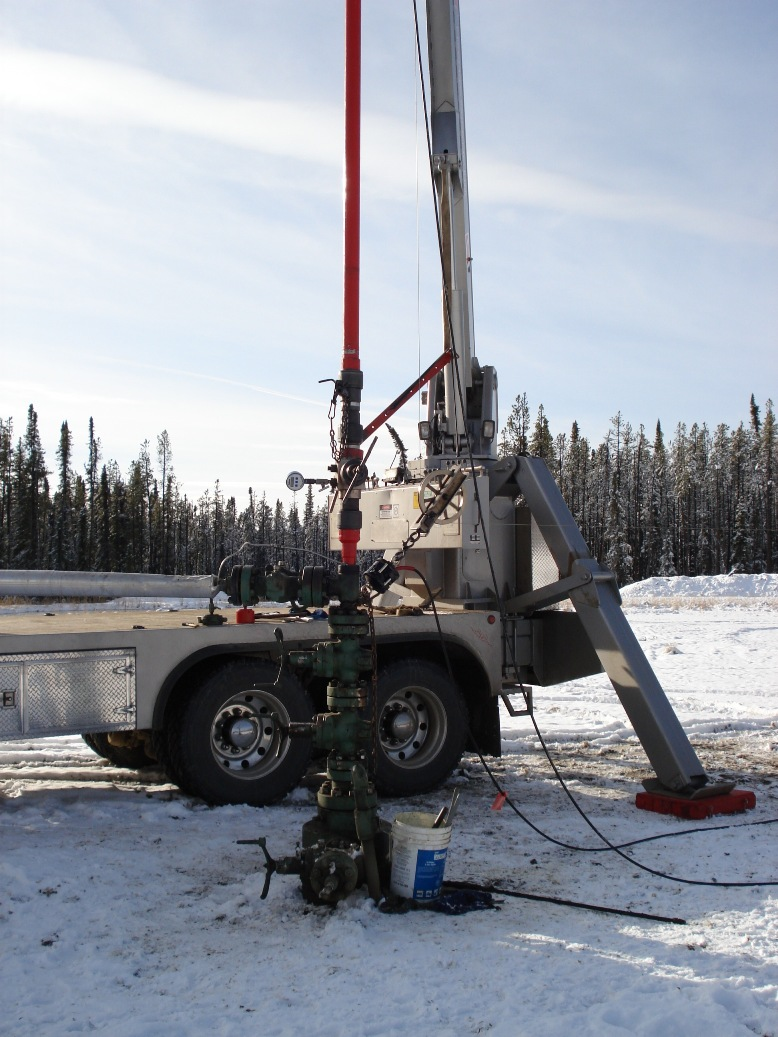 Wireline connection onto an oil well in Northeastern BC, Canada